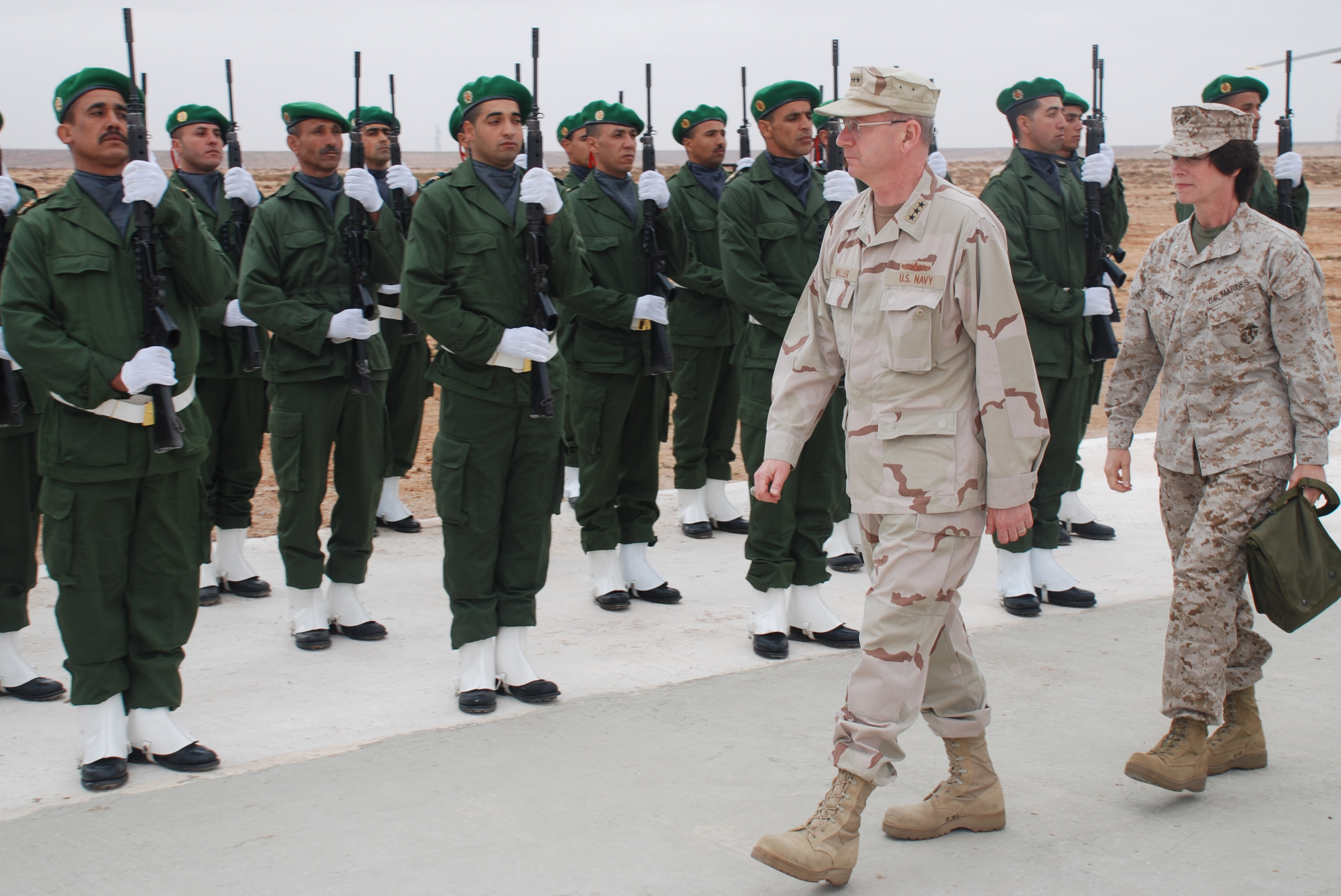 Vice Adm. Robert T. Moeller (center right), U.S. Africa Command deputy to the commander for military operations, and Brig. Gen. Tracy L. Garrett, commander of Marine Forces Africa, pass a Royal Moroccan Army honor platoon upon their arrival to the Cap Draa training area to observe the final training exercise of AFRICAN LION 2009. The annually scheduled, combined U.S. -Moroccan exercise is designed to improve interoperability and mutual understanding of each nation's tactics, techniques and procedures and is scheduled to run until June 4. (U.S. Marine Corps photo by Sgt. Rocco DeFilippis)